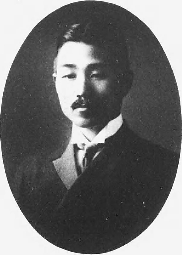 Koga Haruichi